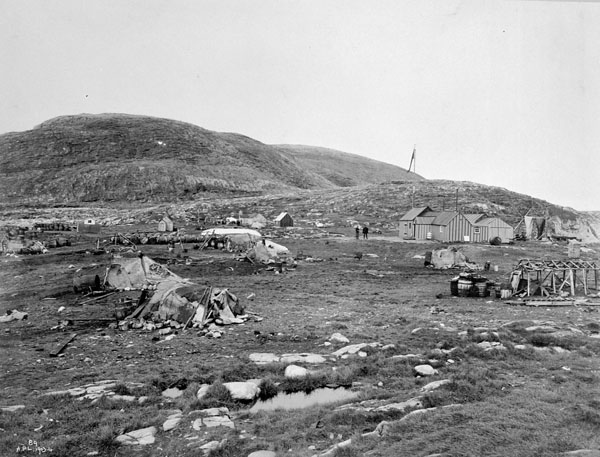 Blacklead Island Whaling Station at Cumberland Sound, Blacklead Island, (then) Northwest Territories (current) Nunavut, Canada.